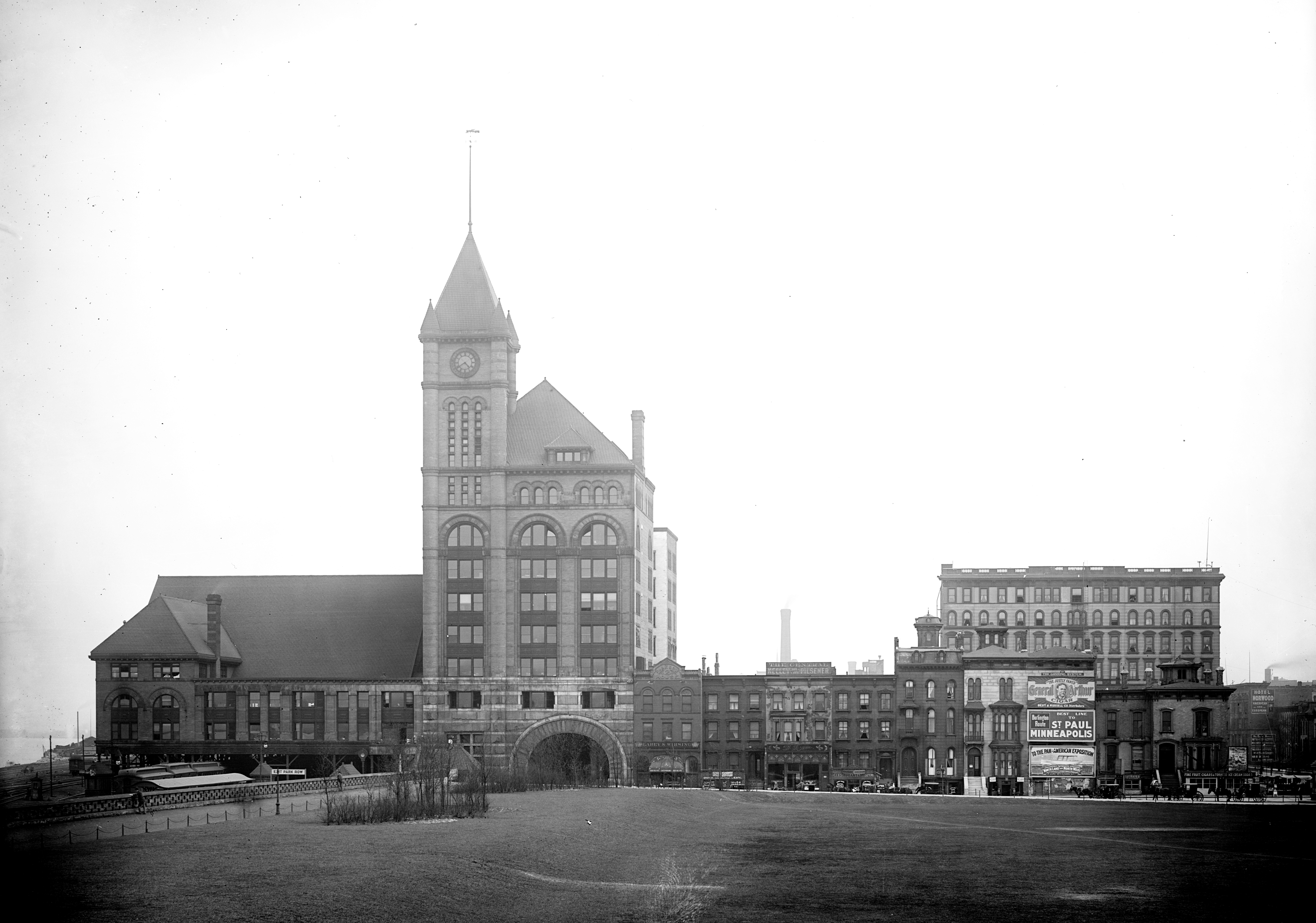 Illinois Central depot, Chicago Medium: 1 negative : glass ; 8 x 10 in. Reproduction Number: LC-D4-13260 (b&w glass neg.) Call Number: LC-D4-13260 [P&P] Repository: Library of Congress Prints and Photographs Division Washington, D.C. 20540 USA Notes: Date based on Detroit, Catalogue J Supplement (1901-1906). "19" on negative. Detroit Publishing Co. no. 013260. Gift; State Historical Society of Colorado; 1949.